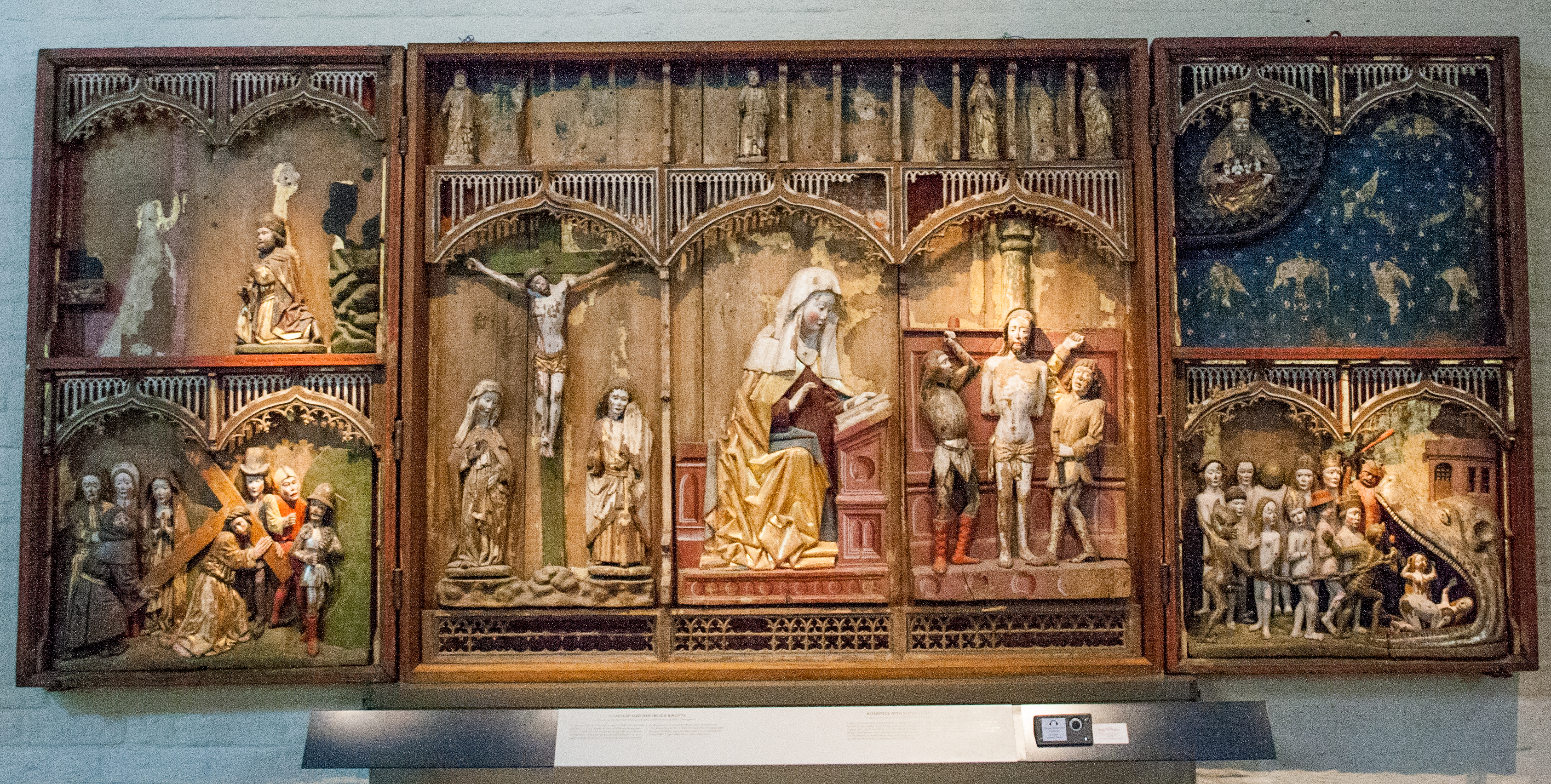 Altarpiece with St Bridget